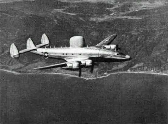 A U.S. Navy Lockheed PO-1W Warning Star prototype AWACS aircraft in 1949/50. In 1952 the PO-1W was re-designated WV-1. The PO-1W/WV-1 was based on the L-749 Constellation, whereas the later WV-2 was based on the L-1049 Super Constellation. After 1962 the WV-2 became the EC-121K. As the WV-1 was already out of service, it was not re-designated again.